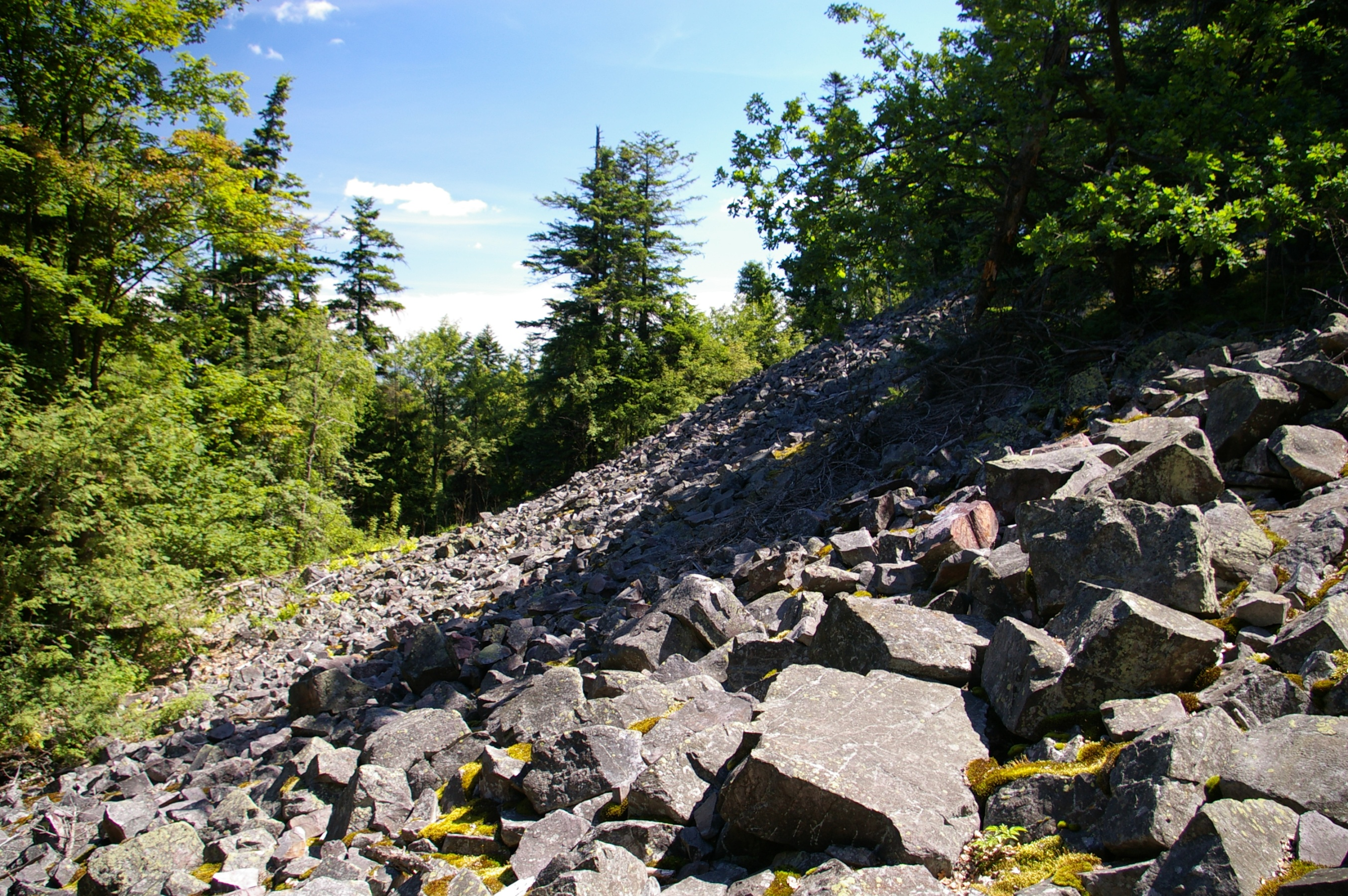 Stone run on the top of Łysica in Holy Cross Mountains, Poland